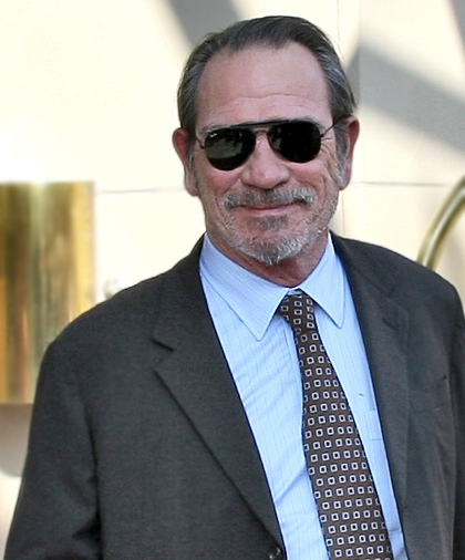 Tommy Lee Jones at the 2007 Toronto International Film Festival